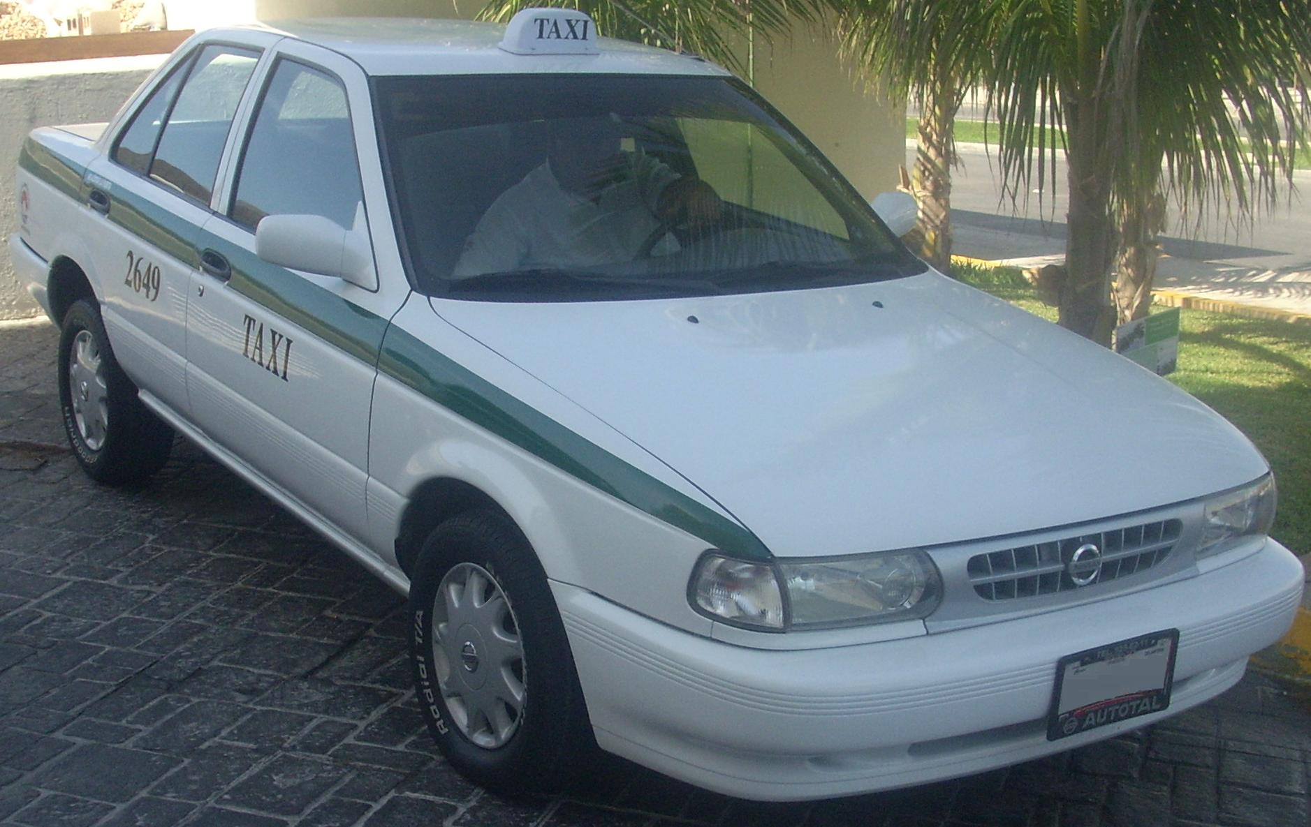 Nissan Tsuru photographed in Cancun, Quintana Roo, Mexico.